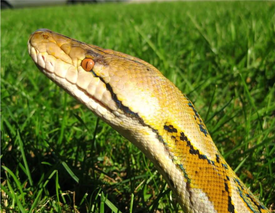 Python reticulatus, animal from my private collection